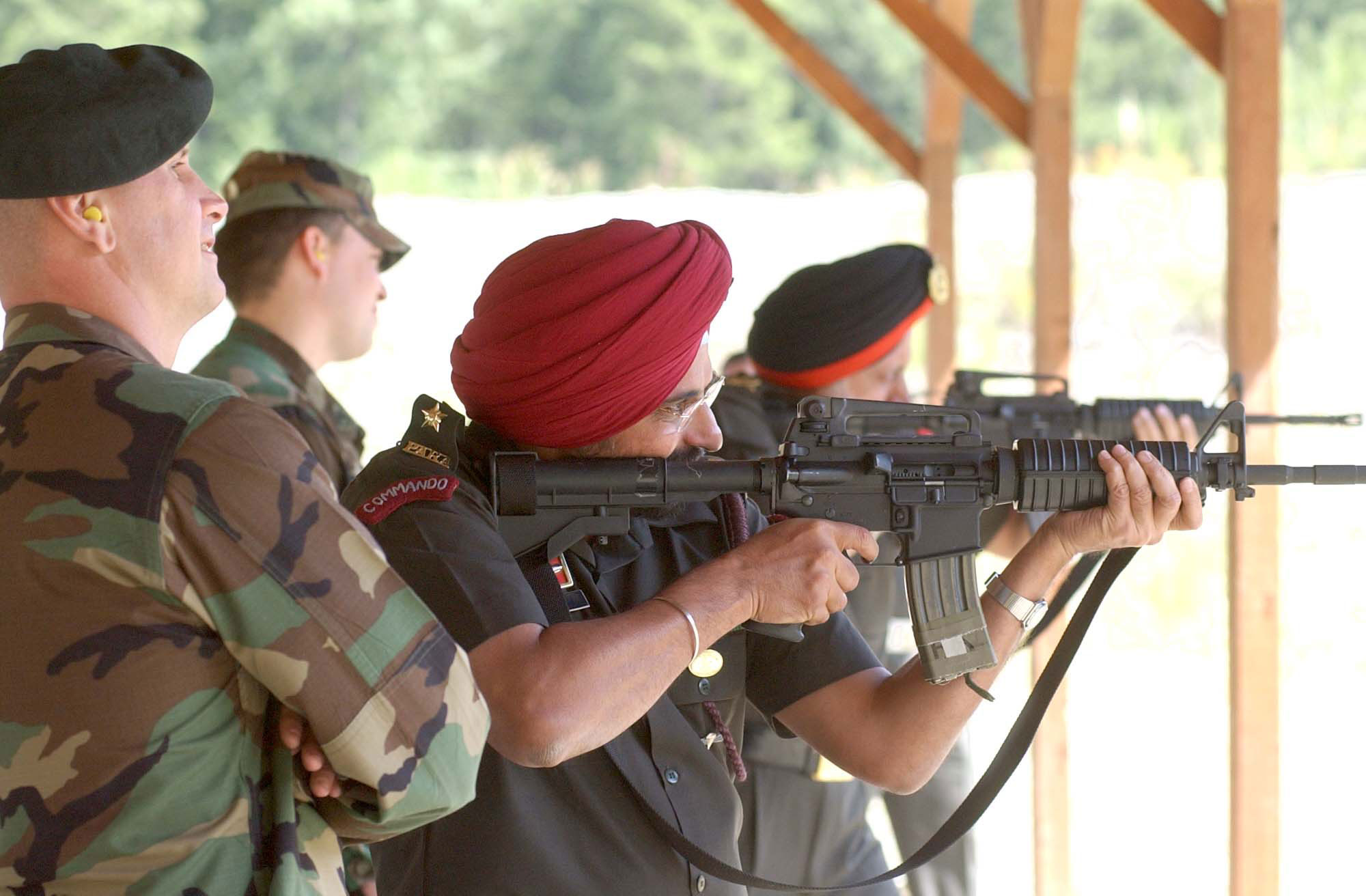 FORT LEWIS, Wash. -- Army Maj. Tom Seagrist, 1st Special Forces Group stationed at Fort Lewis, observes Indian army Lt. Col. S.S. Soin as he fires an M-4 on Range 43 Aug. 8. Members of the Indian army are visiting military installations throughout the United States for two weeks to compare numerous weapons systems. (U.S. Army photo)